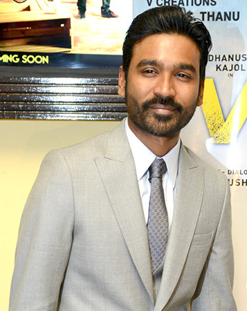 Dhanush promotes his film Velaiilla Pattadhari 2 in Delhi